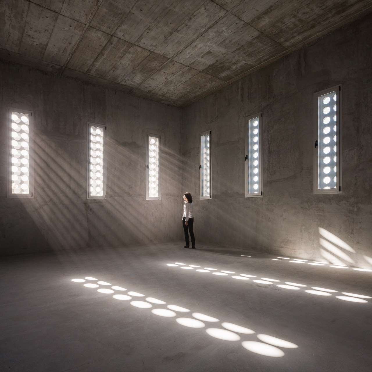 Extension in the Cerrillo de Maracena School in Granada. Photography: Fernando Alda